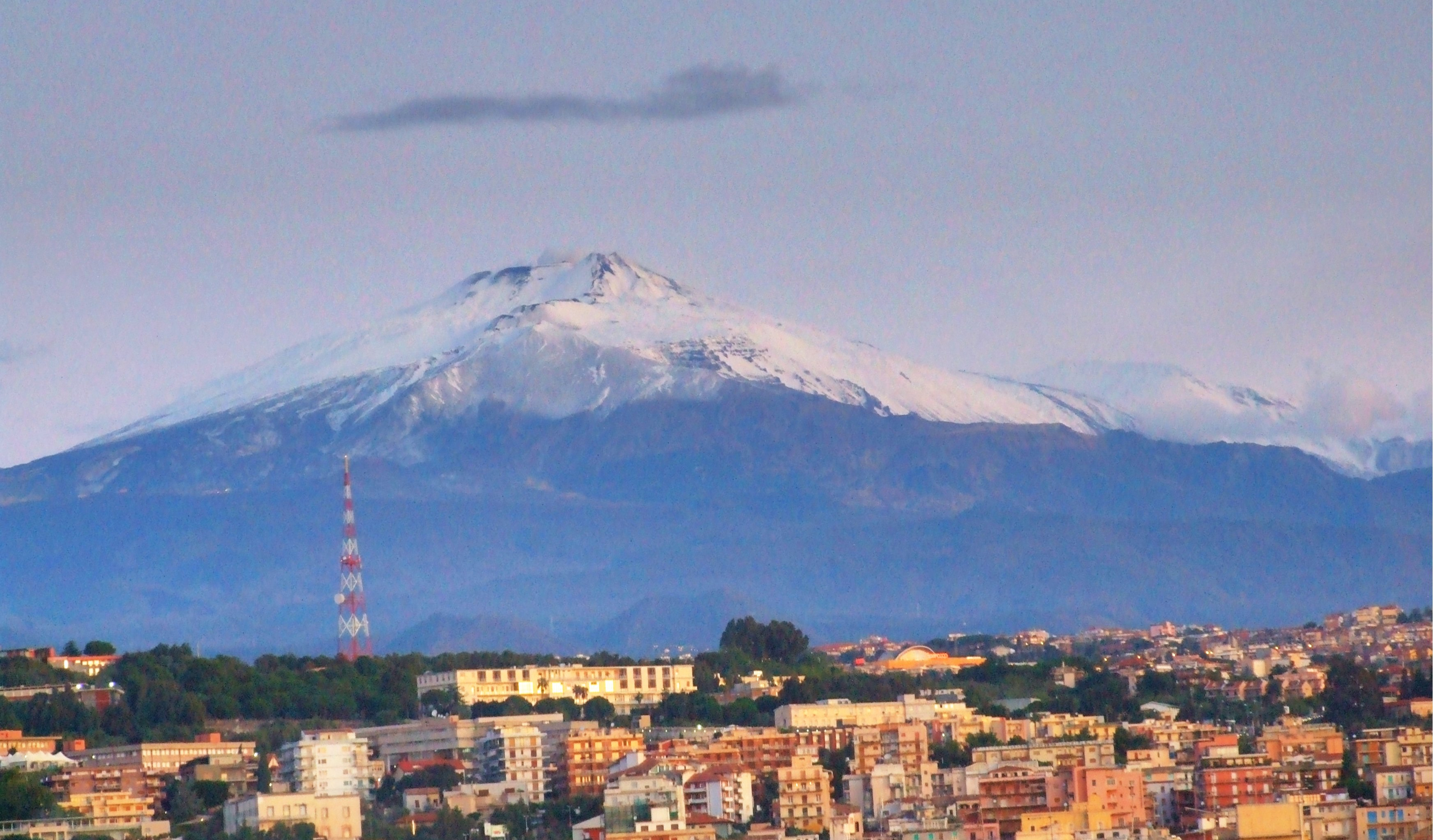 Mount Etna, Sicily